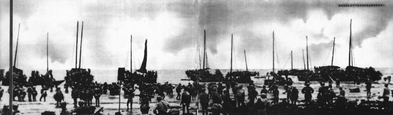 1950年，海南战役，解放军正从琼州海峡进行登陆作战